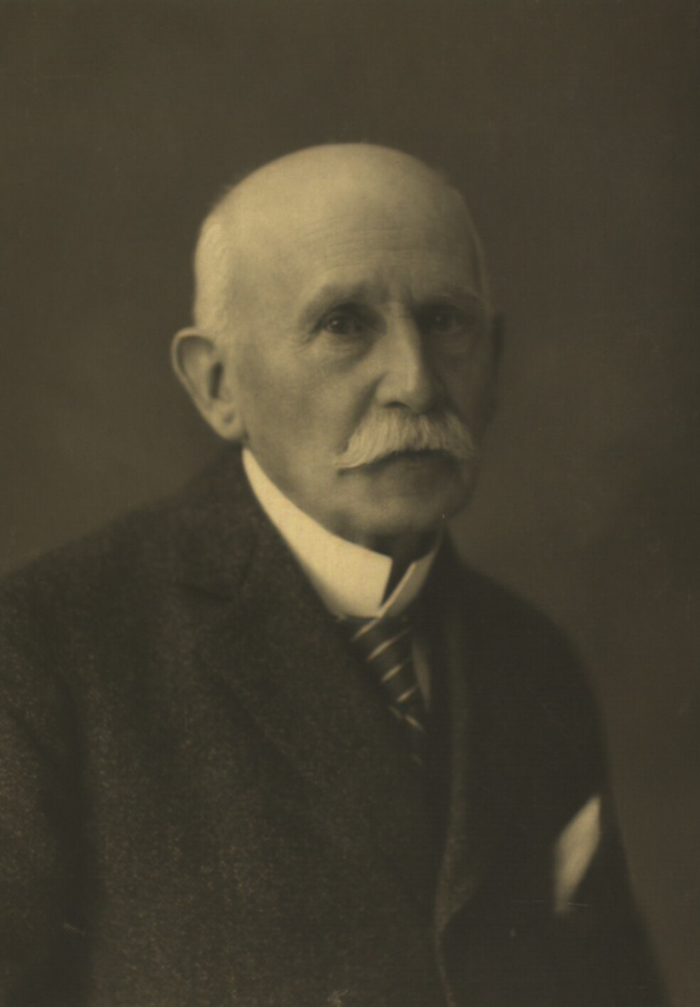 Carl Frederick Wandel (1843–1930), Danish admiral, chief of the Navy and polar explorer